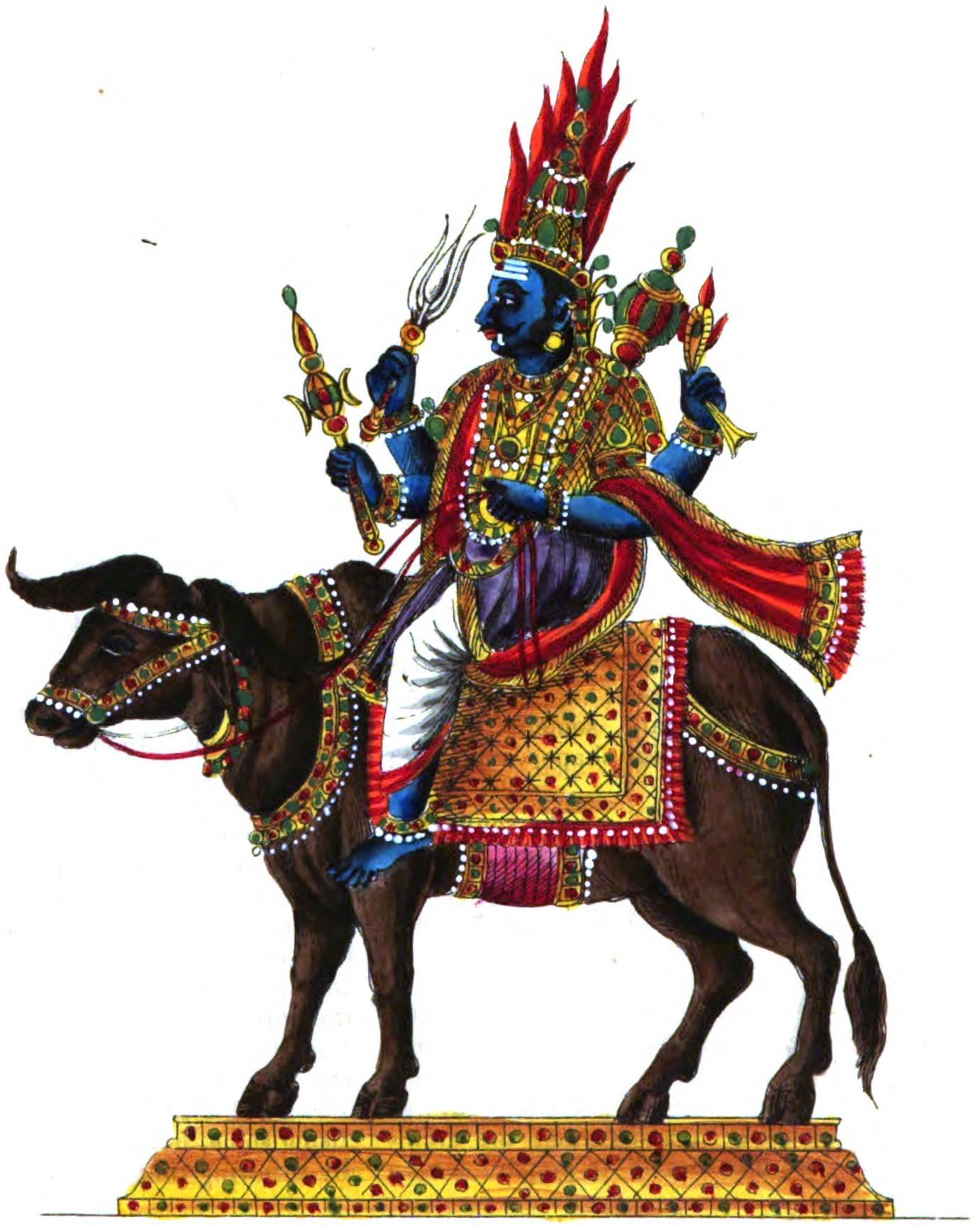 yama